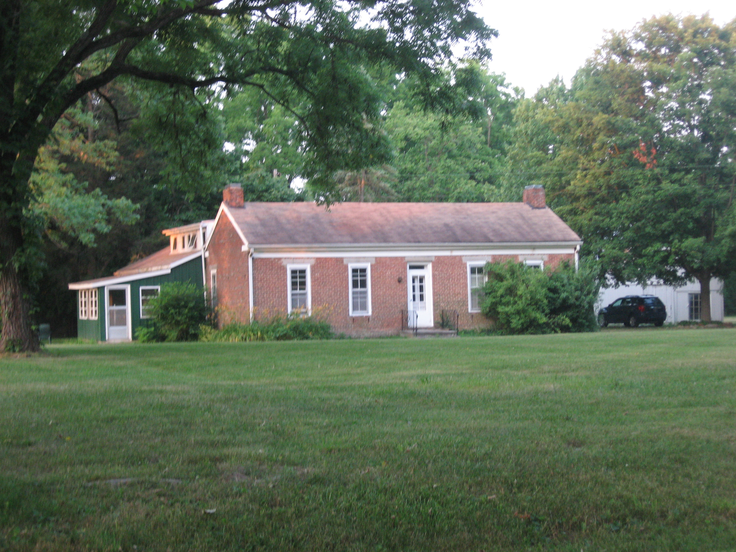 Front of the Samuel Brown House, located at 1558 E. County Road 1100N southwest of Roachdale in Franklin Township, Putnam County, Indiana, United States. Built in 1841, it is listed on the National Register of Historic Places.